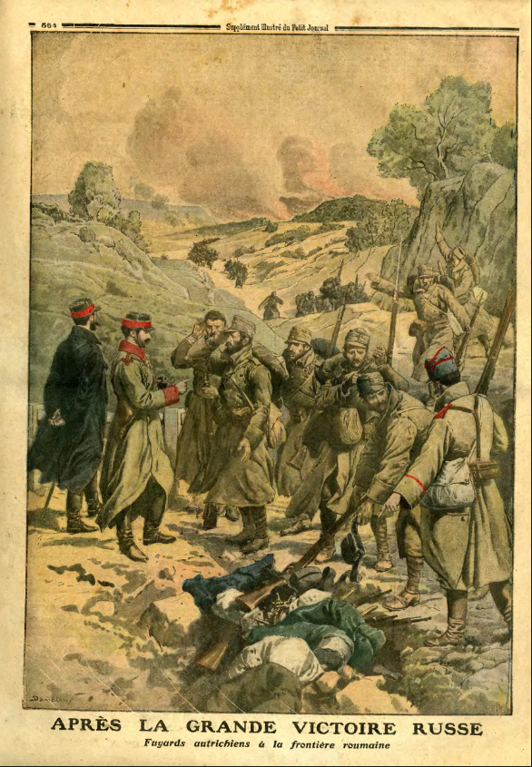 Image form Le Petit Journal. Austria-Hungarian POWs on roumanian frontier after Brusilov Offensive.